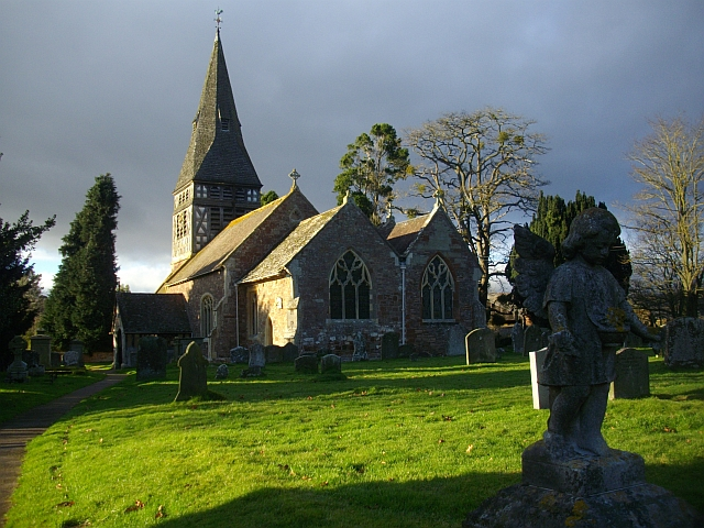 Bromesberrow Church St. Mary's church on winter solstice.